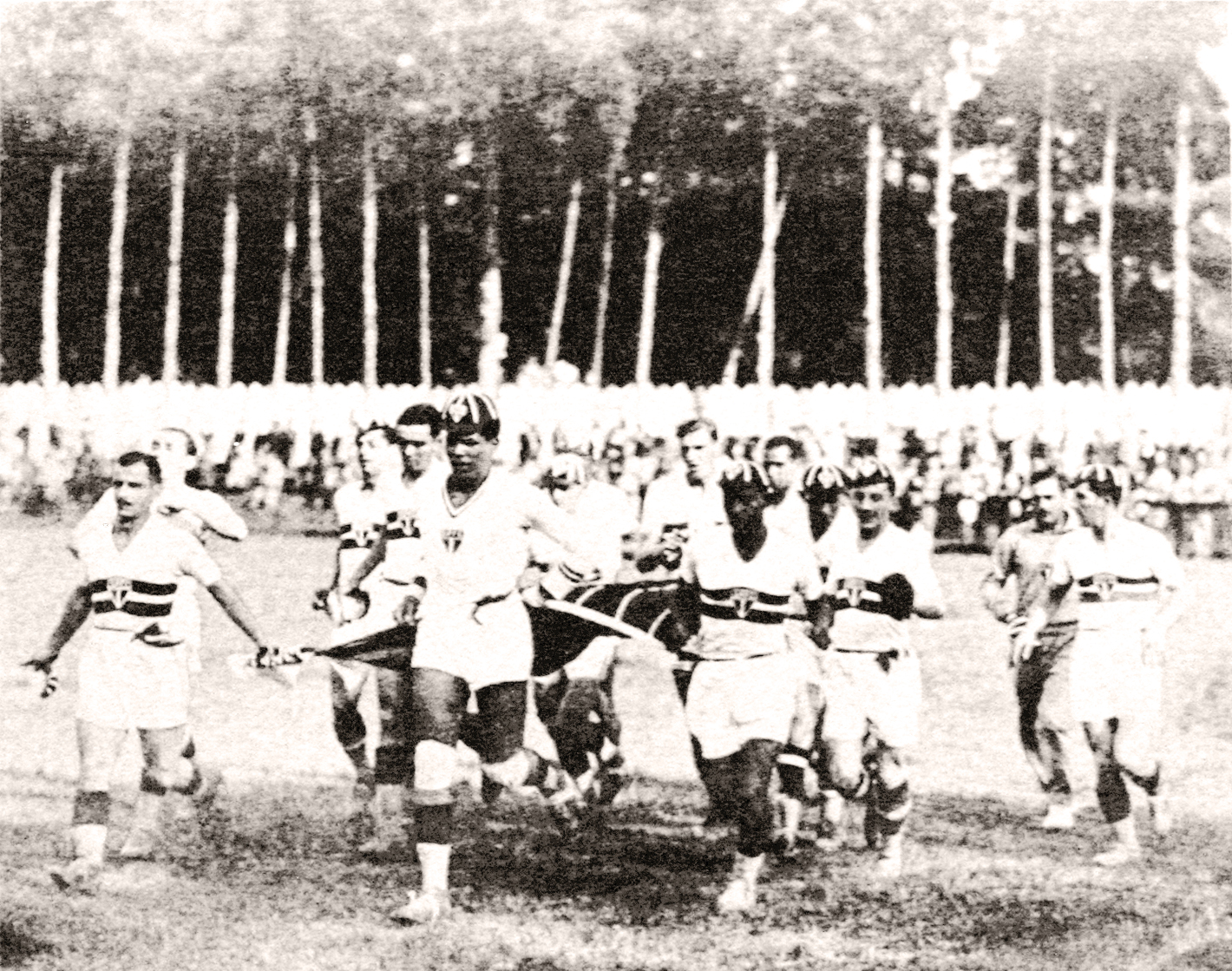 squad of São Paulo Futebol Clube in 1938.